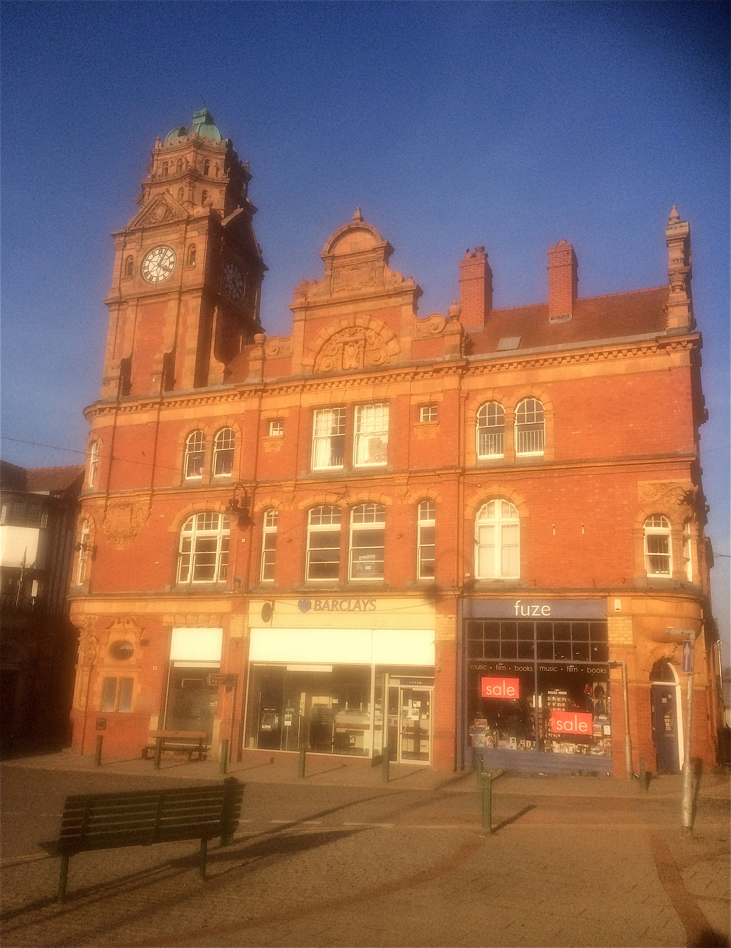 Barclays Bank Newtown Montgomeryshire